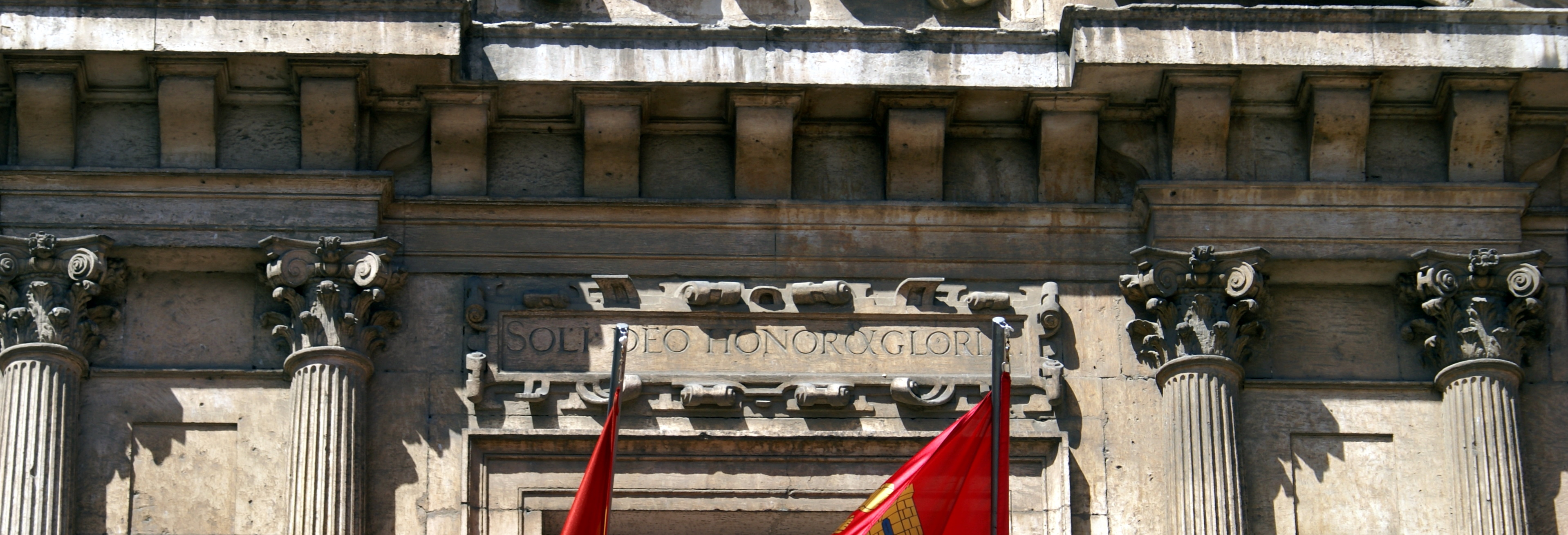 The motto Soli deo honor α gloria in the façade of the Palace of Fabio Nelli, Valladolid.